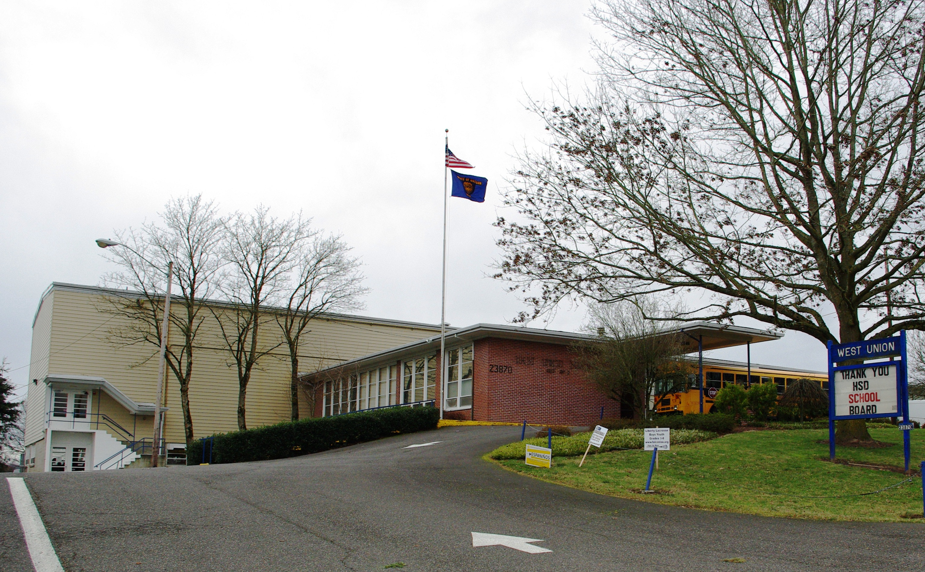 West Union Elementary School in West Union, Oregon, part of the Hillsboro School District.